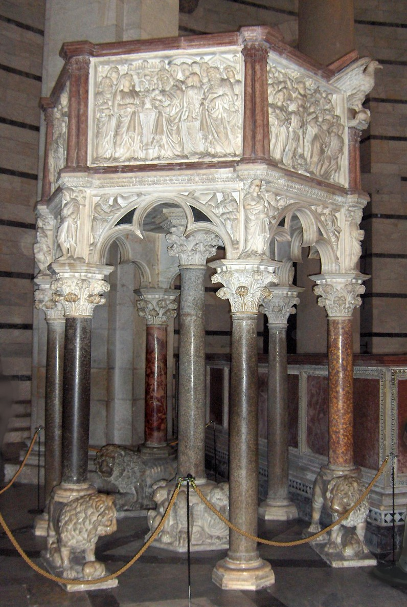 The Pulpit in the Baptistery of Pisa, Nicola Pisano, c.1220 – c.1284